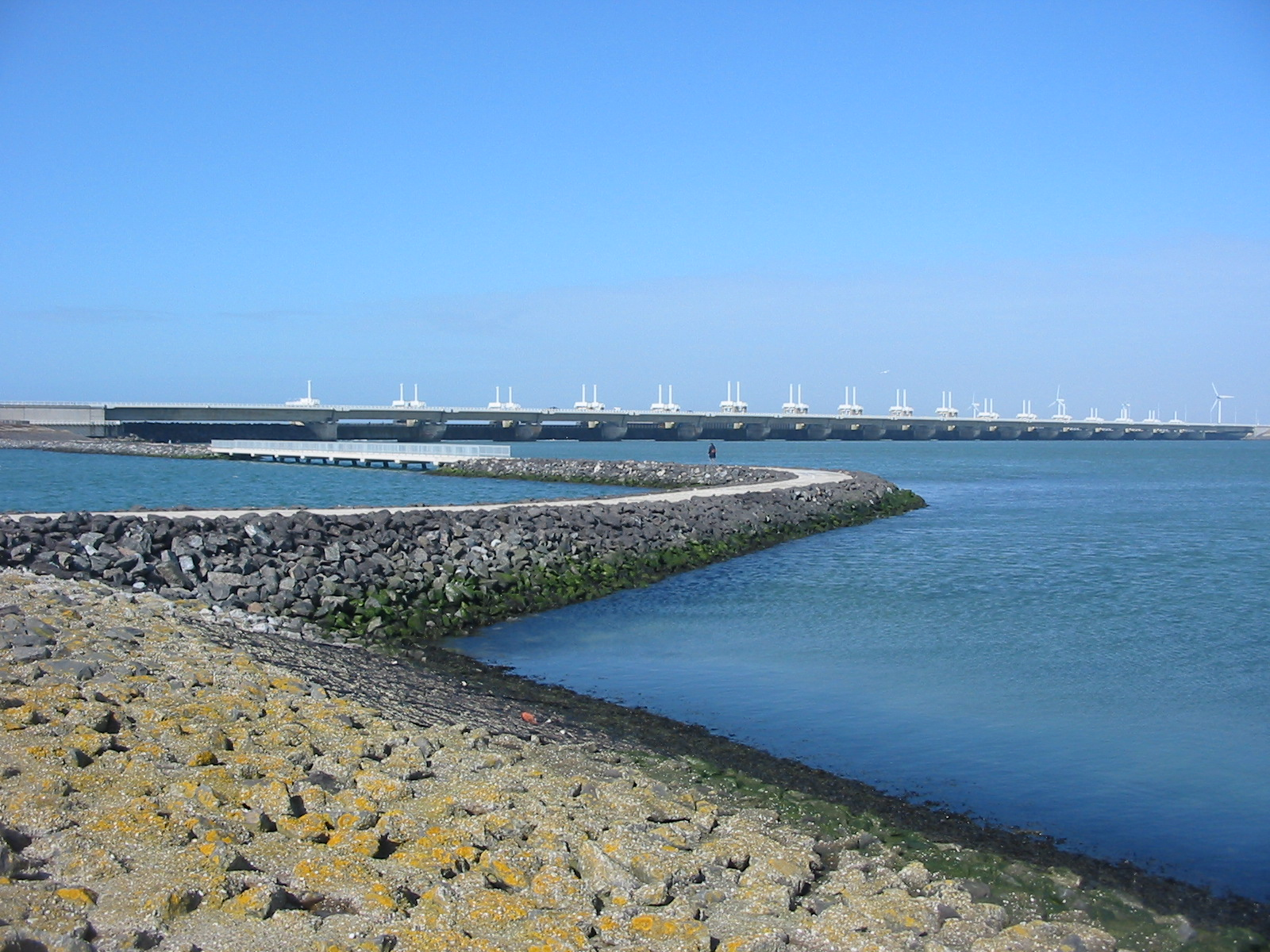 Eastern Scheldt storm surge barrier, The Netherlands